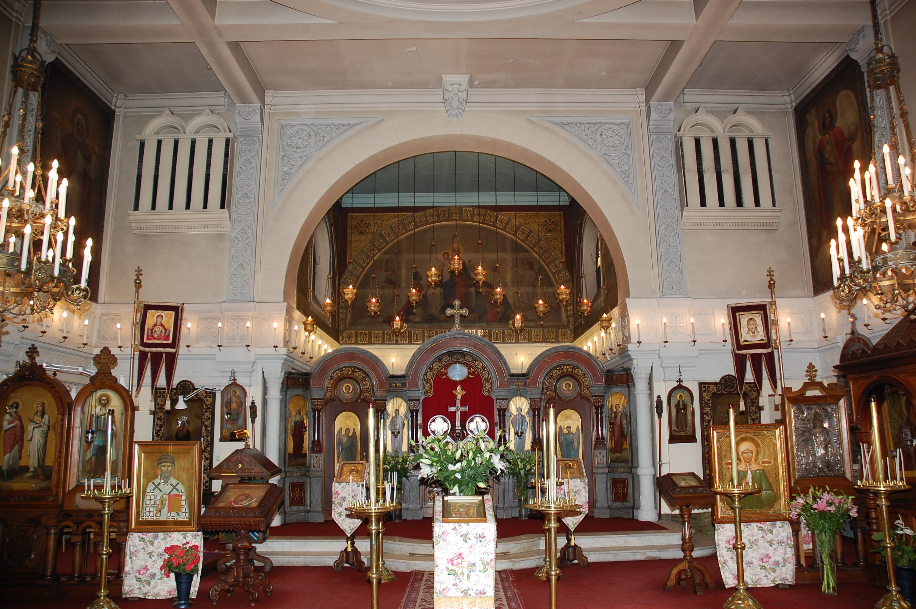 Church Interior in Cannes